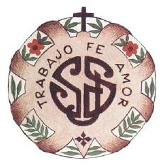 Emblem of Servant of Saint Joseph congregation, from a book print 1902